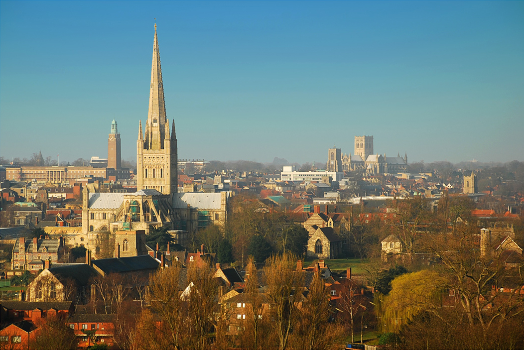 Skyline of Norwich, showing the city's two cathedrals